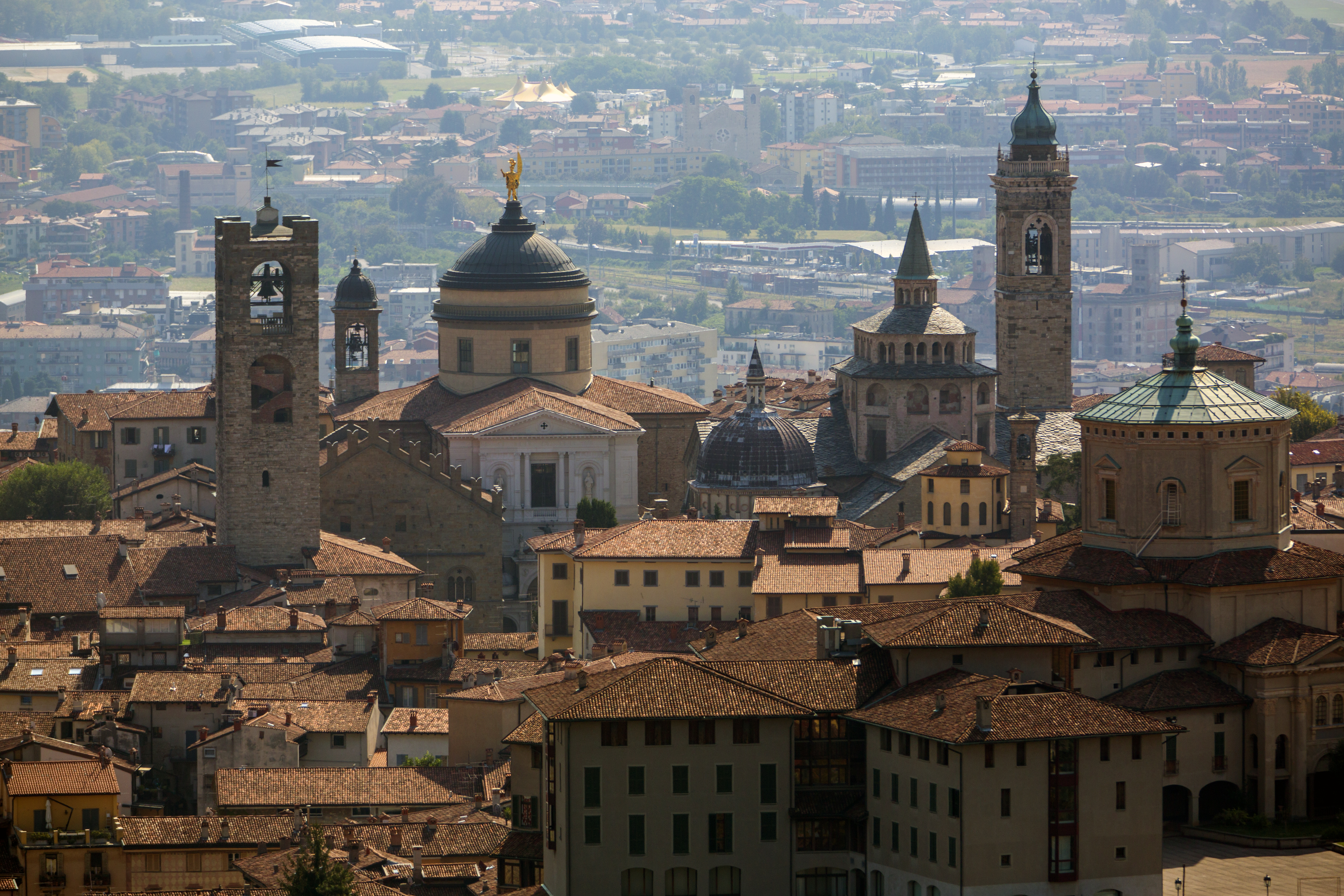 Italy, Bergamo city. View to the Old Upper City.